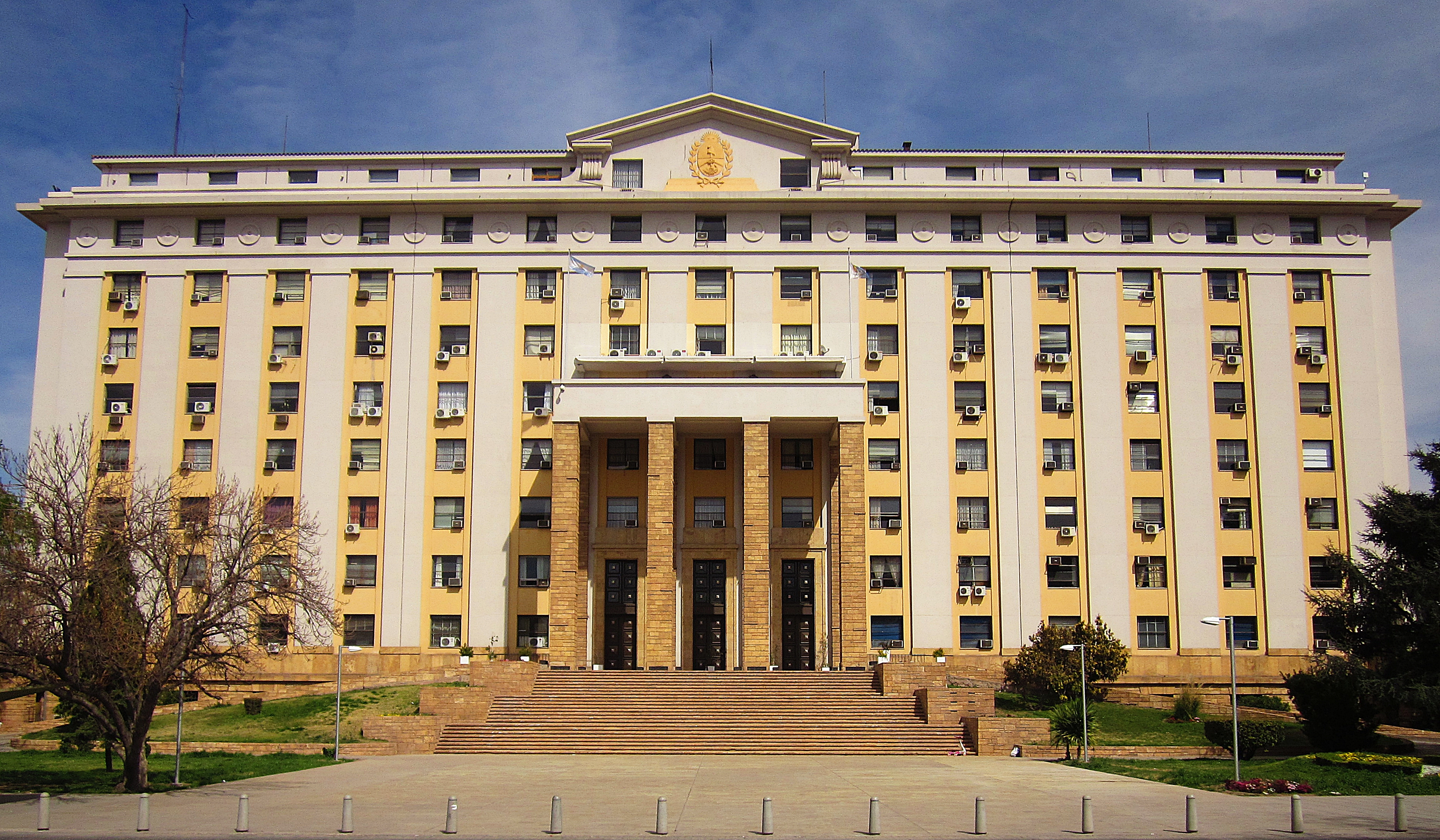 Casa de Gobierno, Mendoza.